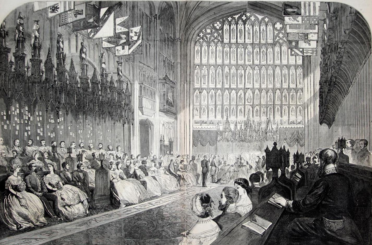 Engraved illustration from Harper's Weekly newspaper of the wedding of the Prince of Wales (later King Edward VII) and Alexandra of Denmark